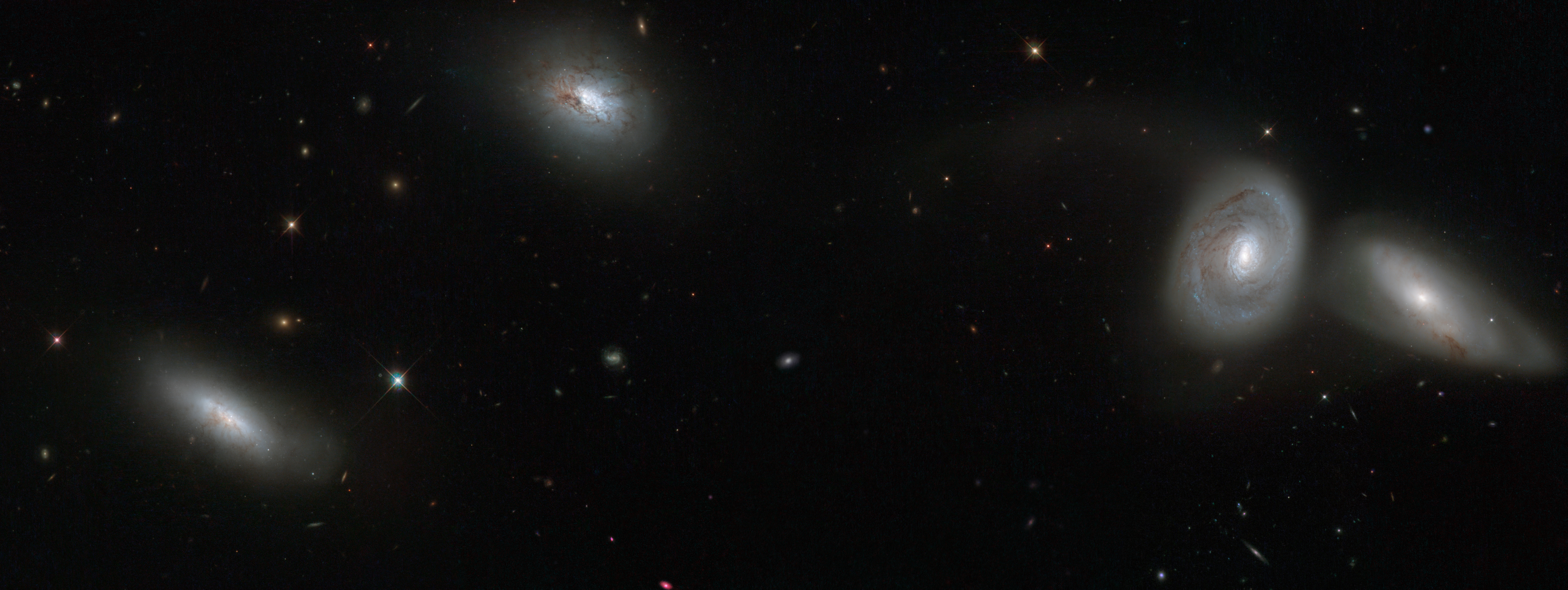 This new NASA/ESA Hubble Space Telescope image shows four of the seven members of galaxy group HCG 16. This quartet is composed of (from left to right) NGC 839, NGC 838, NGC 835, and NGC 833 — four of the seven galaxies that make up the entire group. They shine brightly with their glowing golden centres and wispy tails of gas, set against a background dotted with much more distant galaxies. This new image uses observations from Hubble's Wide Field Planetary Camera 2 combined with data from the ESO Multi-Mode Instrument, installed on the European Southern Observatory's New Technology Telescope in Chile.